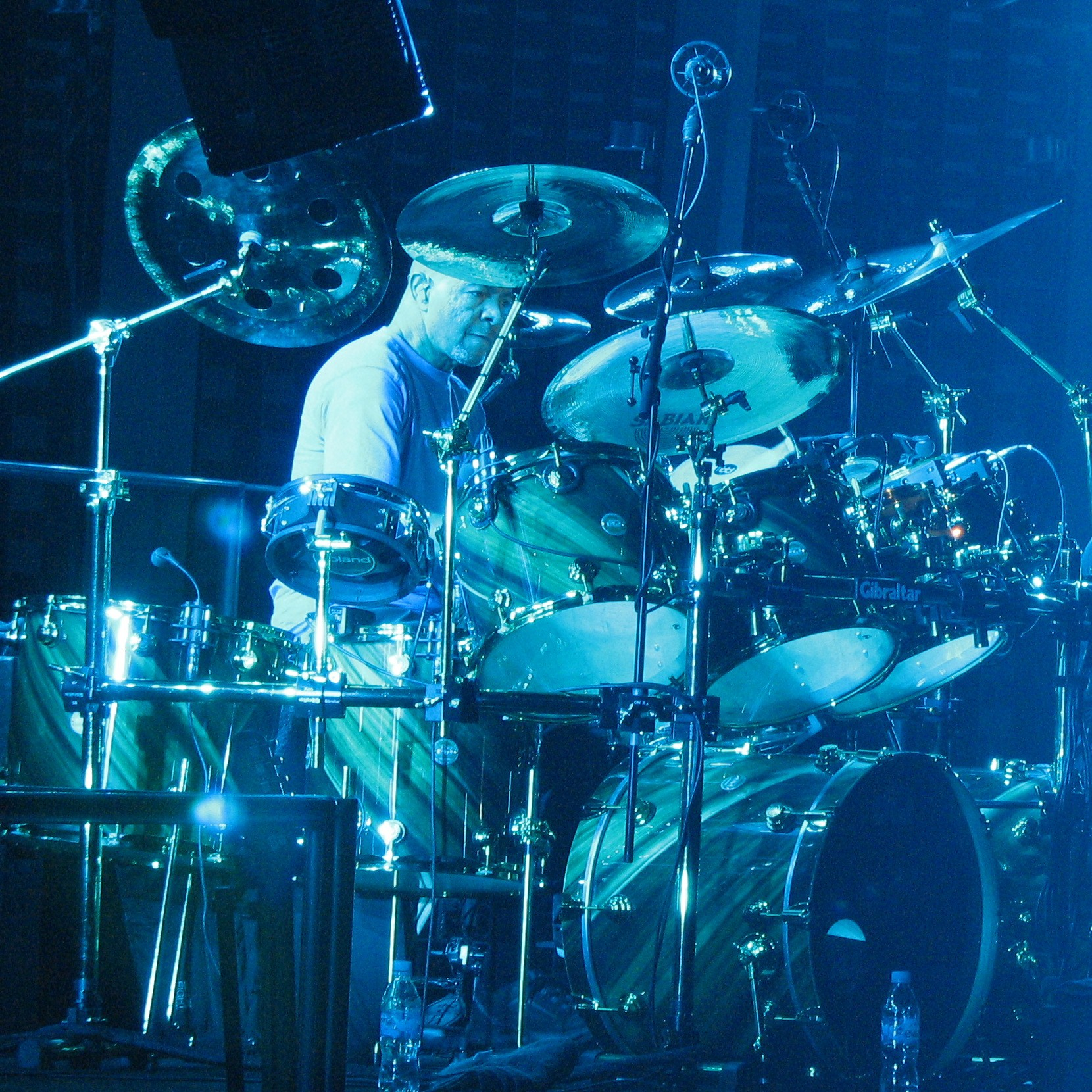 Genesis concert at the Mellon Arena, Pittsburgh, Pennsylvania, USA. Chester Thompson performing a drum duet with Phil Collins.